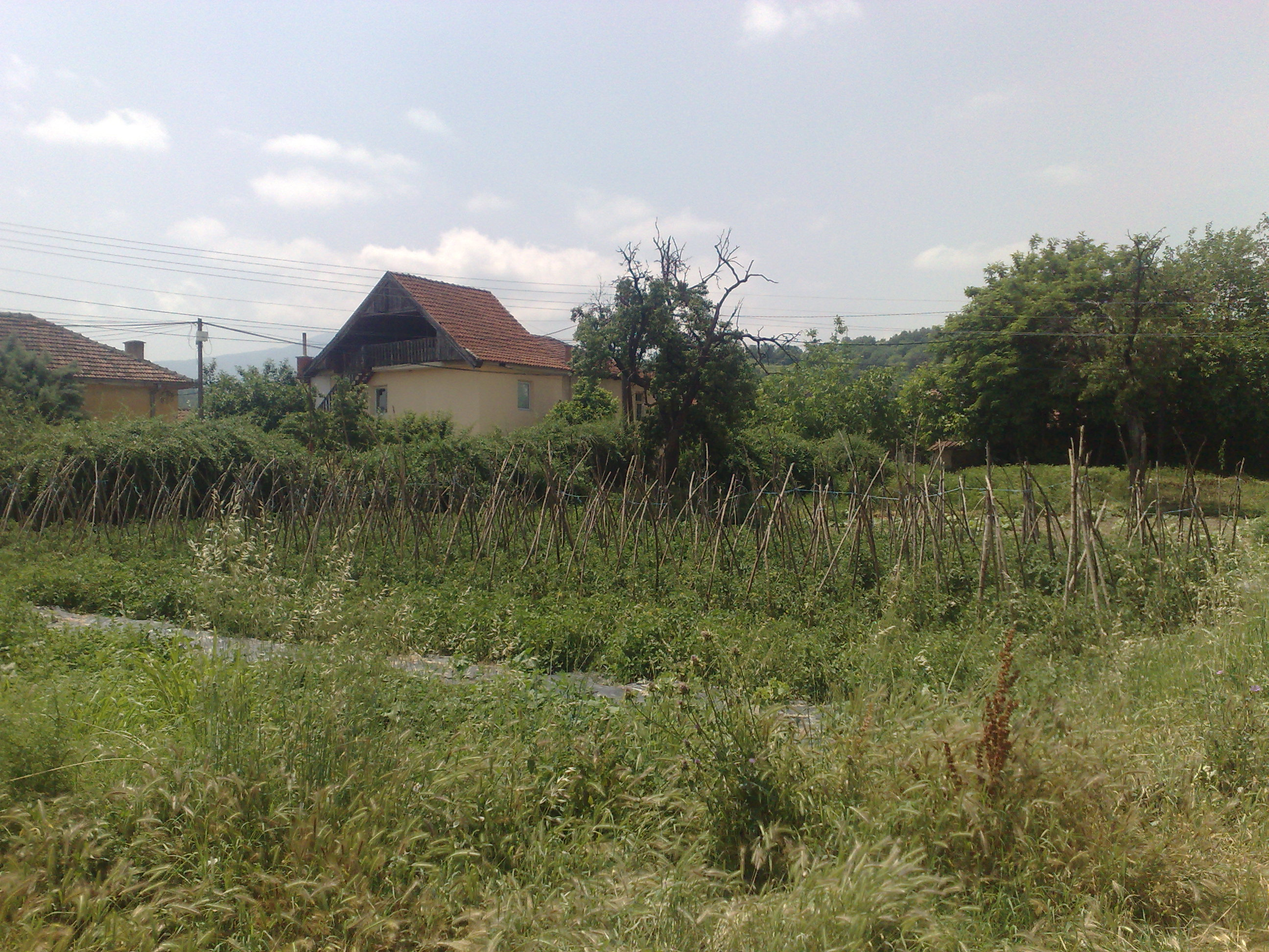 Growing tomatoes in Drachevo, Macedonia